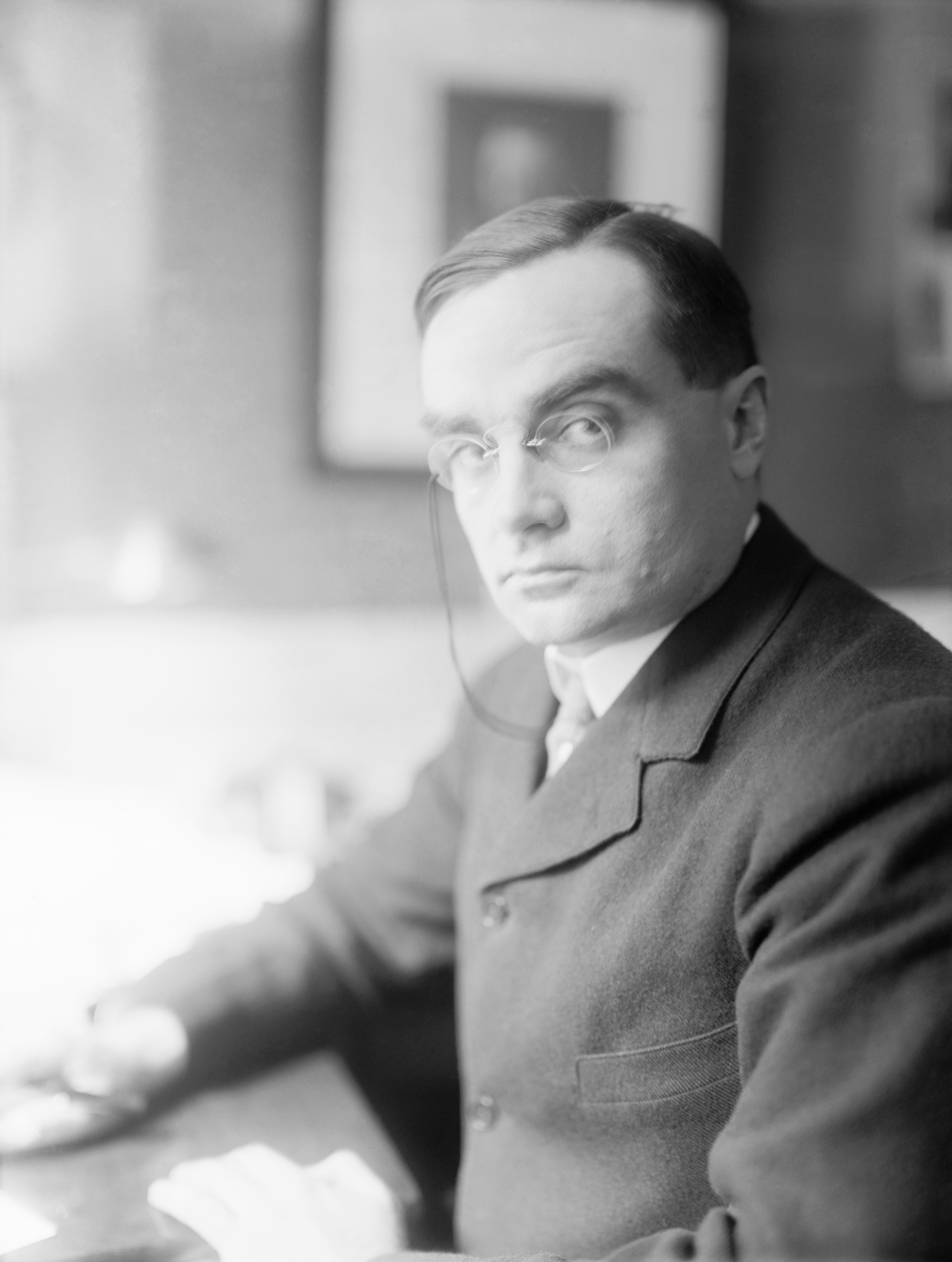 Judge Learned Hand.